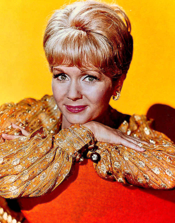 Publicity photo of Debbie Reynolds